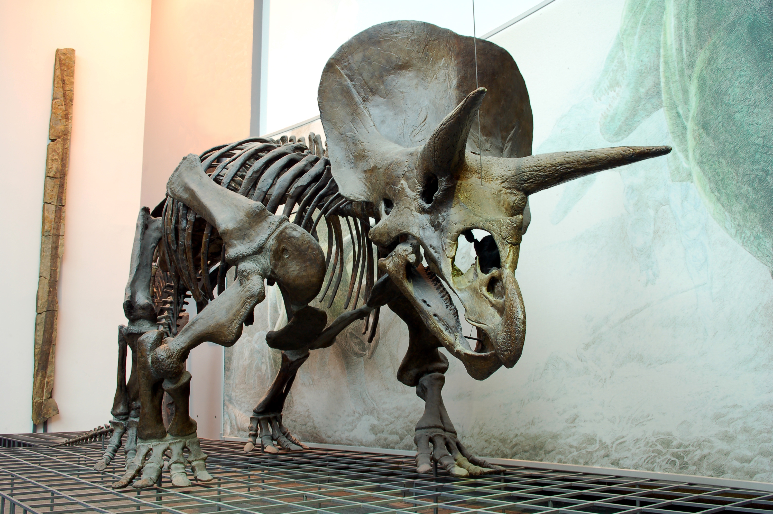 Reconstruction of a Triceratops skeleton in the Senckenberg Museum in Frankfurt am Main, assembled from fragments of different skeletons